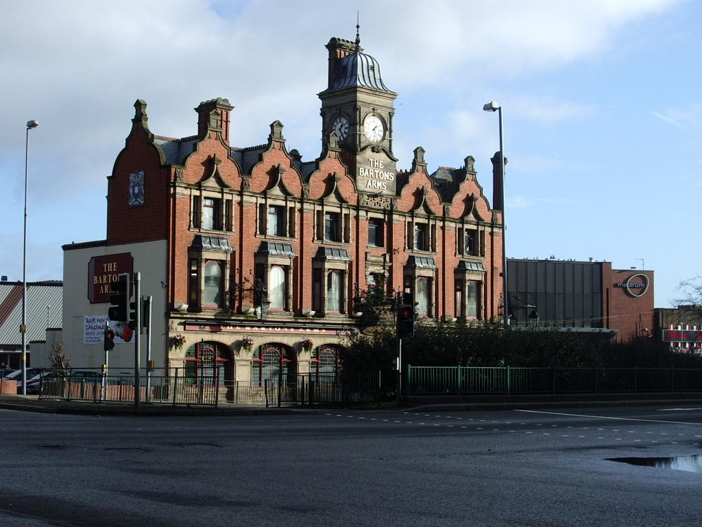 The Barton Arms, Newtown Magnificent building survives close to developments on Walsall Road, Newtown.